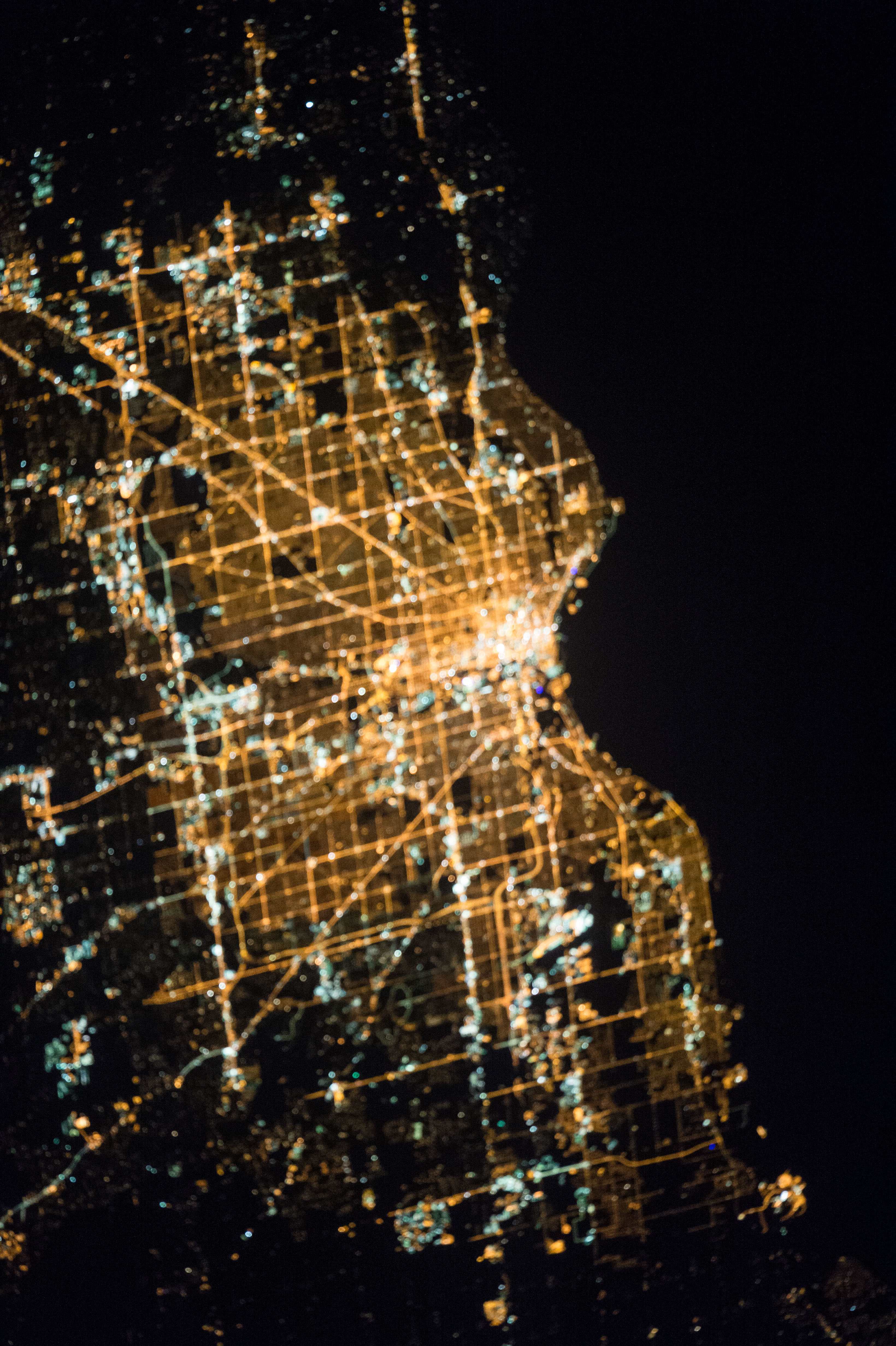 The city of Milwaukee and some nearby suburbs at 03:03:05 AM CST on November 15, 2015 from an altitude of 213 nautical miles (394 km) during Expedition 45 of the International Space Station. This photo was reversed 180 degrees from the original so north would point up.